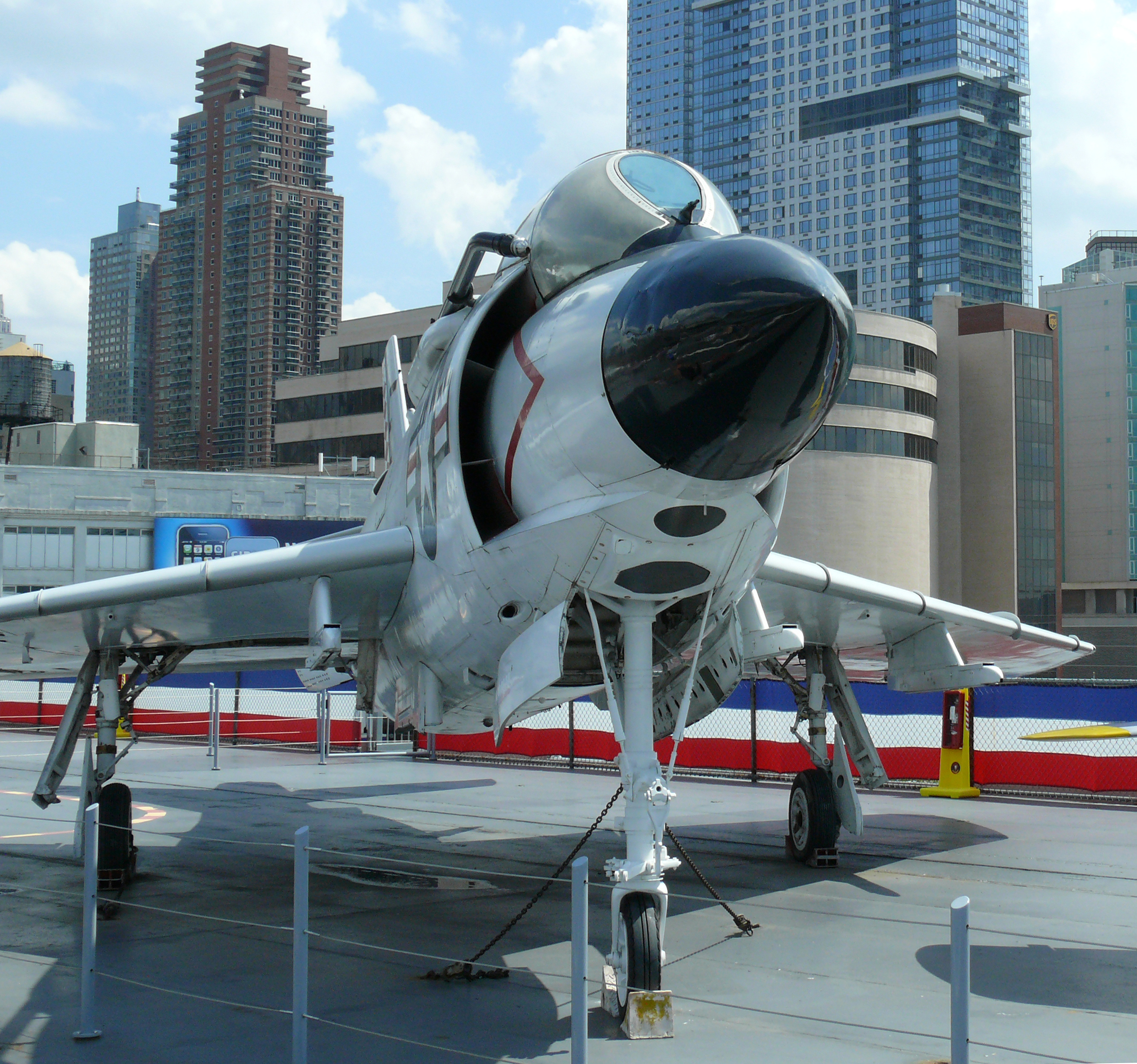 McDonnell F3H Demon in the Intrepid Sea-Air-Space Museum. The McDonnell F3H Demon was a subsonic swept-wing United States Navy carrier-based jet fighter aircraft.